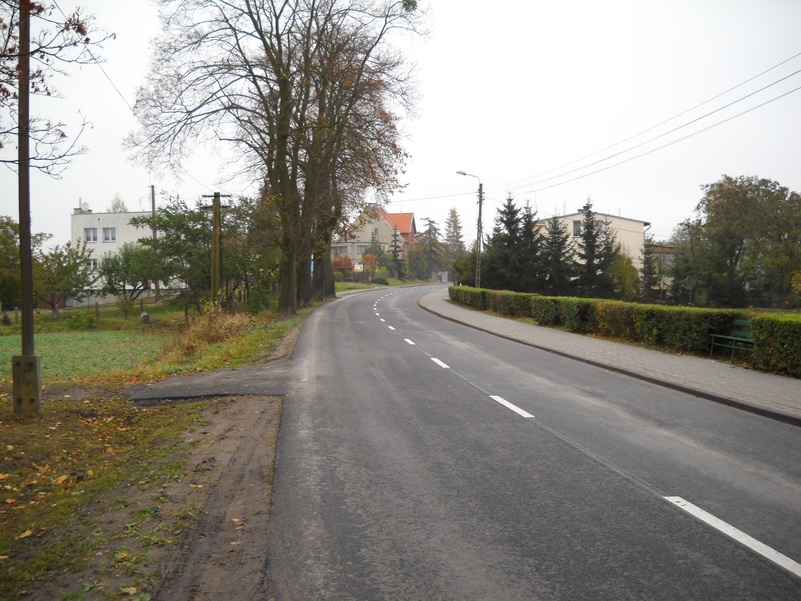 Voivodeship road number 538 in Łasin, Poland